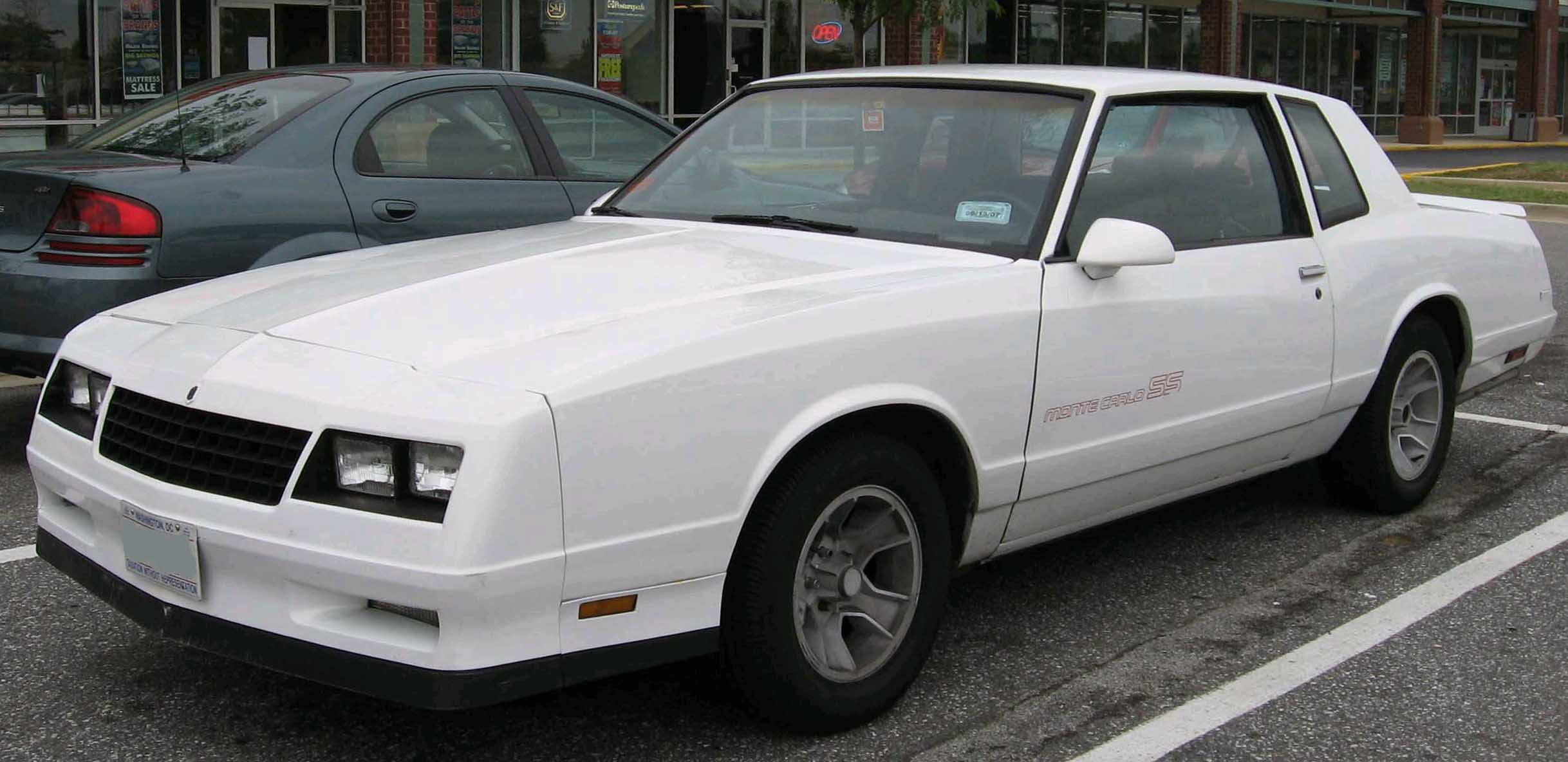 1986 - 1988 Chevrolet Monte Carlo photographed in USA.